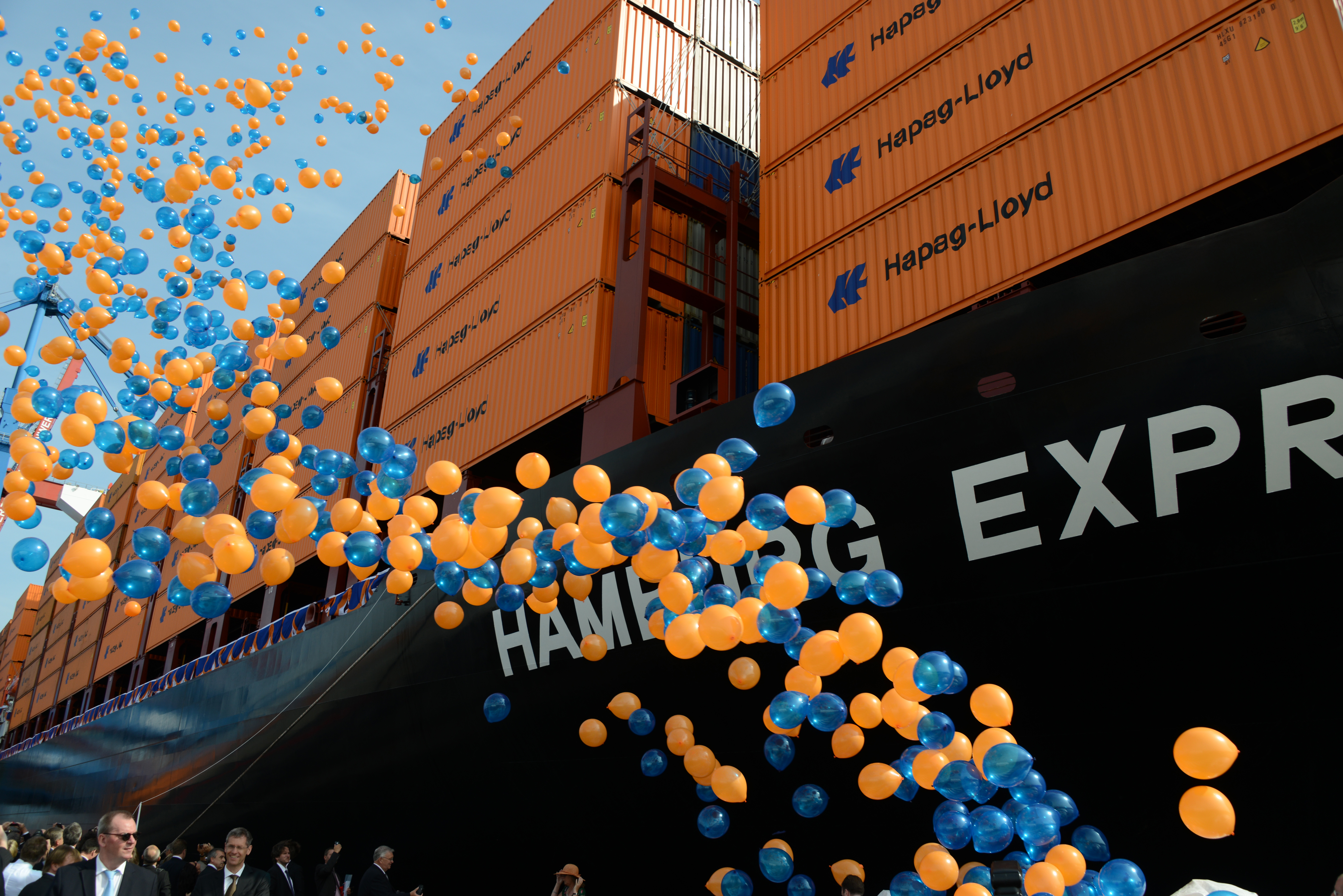 Ships christening "Hamburg Express" in Hamburg August 17th, 2012; with balloon mass release